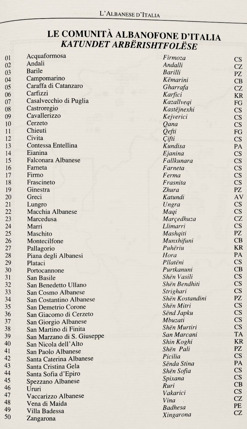 The communities speaking the Albanian language in Italy